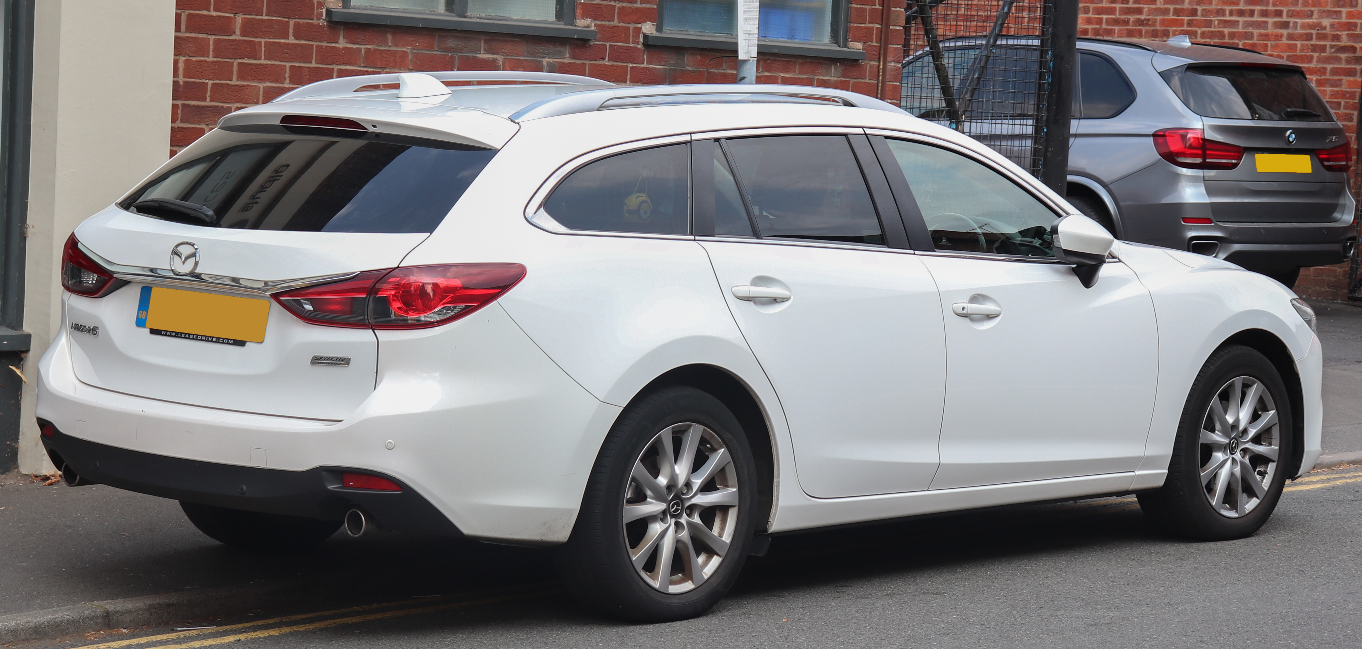 2014 Mazda6 SE-L Diesel Estate 2.2 Rear Taken in Warwick